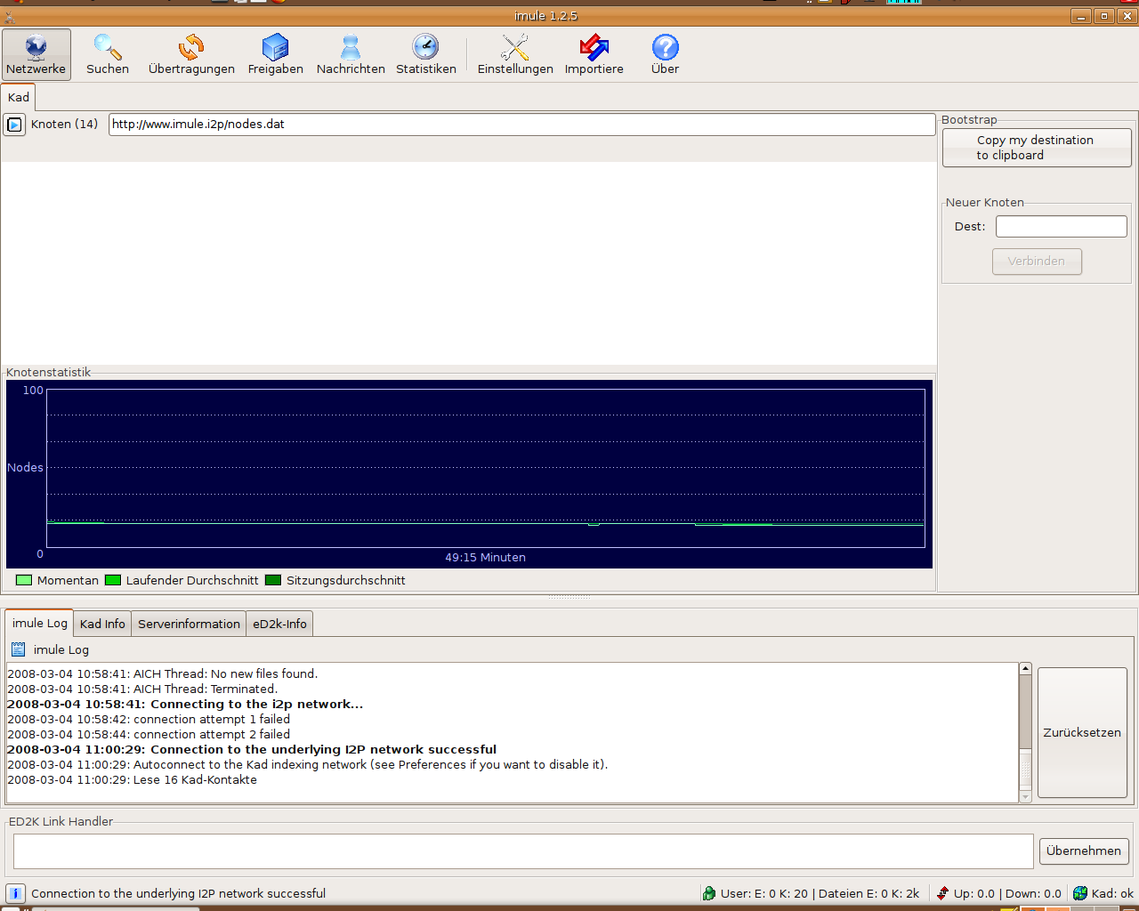 iMule.